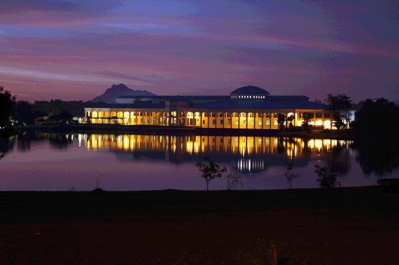 Dewan Pustaka Kuching or known as the Sarawak State Library.